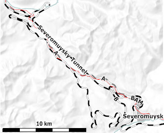 Map of Severomuysky Tunnel including the first bypass (here marked with an A) built between 1982-1983 and the second bypass (here marked with a B) built until 1989. The red line is the highway. This map may be incomplete, and may contain errors. Don't rely solely on it for navigation.